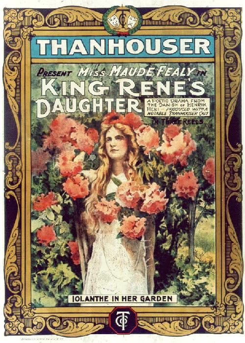 Poster for the silent film King Rene's Daughter (1913).